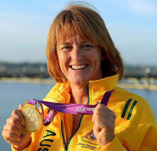 Liesl Tesch in London 2012 with her Paralym,pic Gold Medal